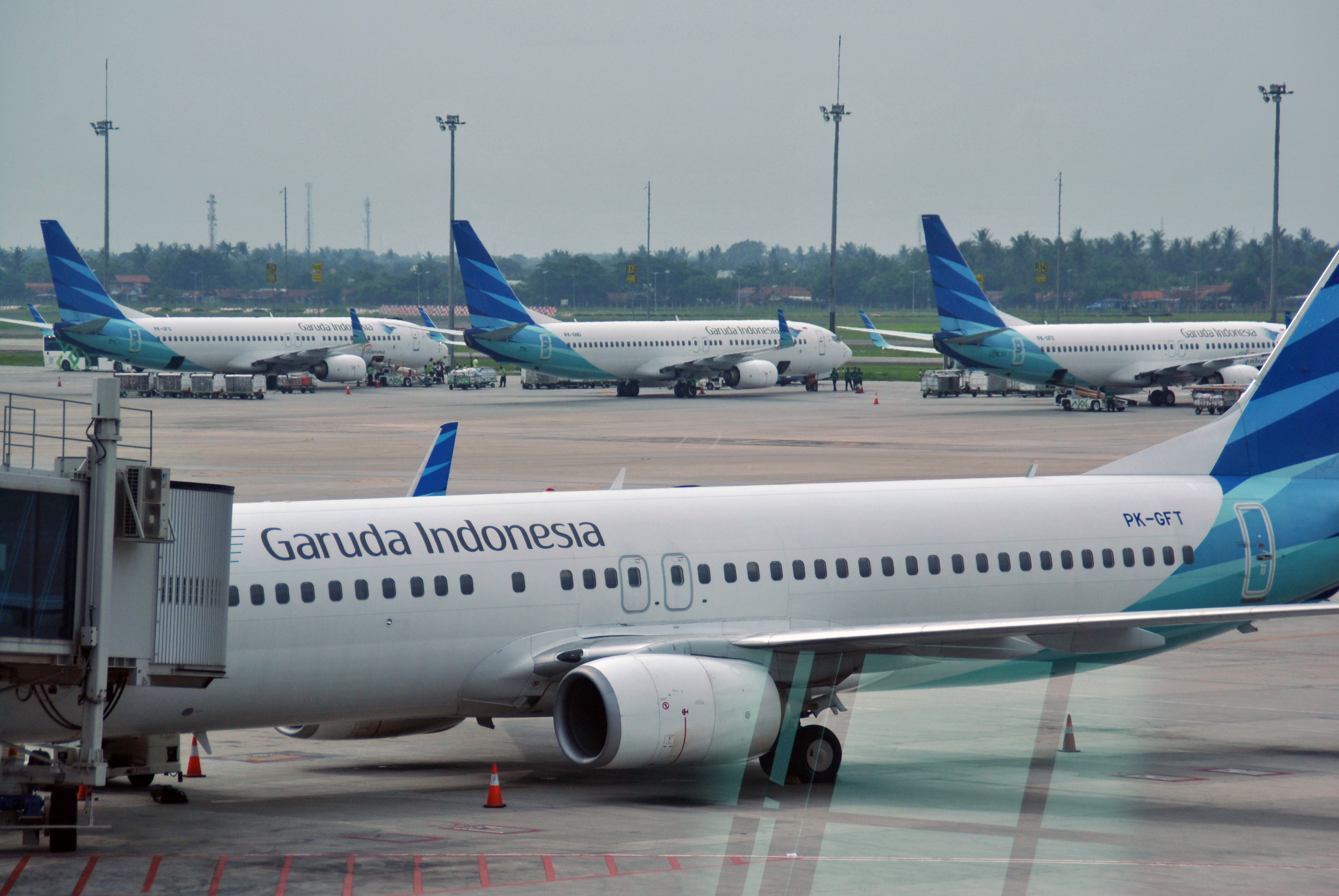 4 Garuda Indonesia aircraft in 1 frame, Soekarno-Hatta Airport, Cengkareng, Banten